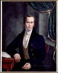 Self-portrait of Johann Friedrich Welsch from 1833, source of description